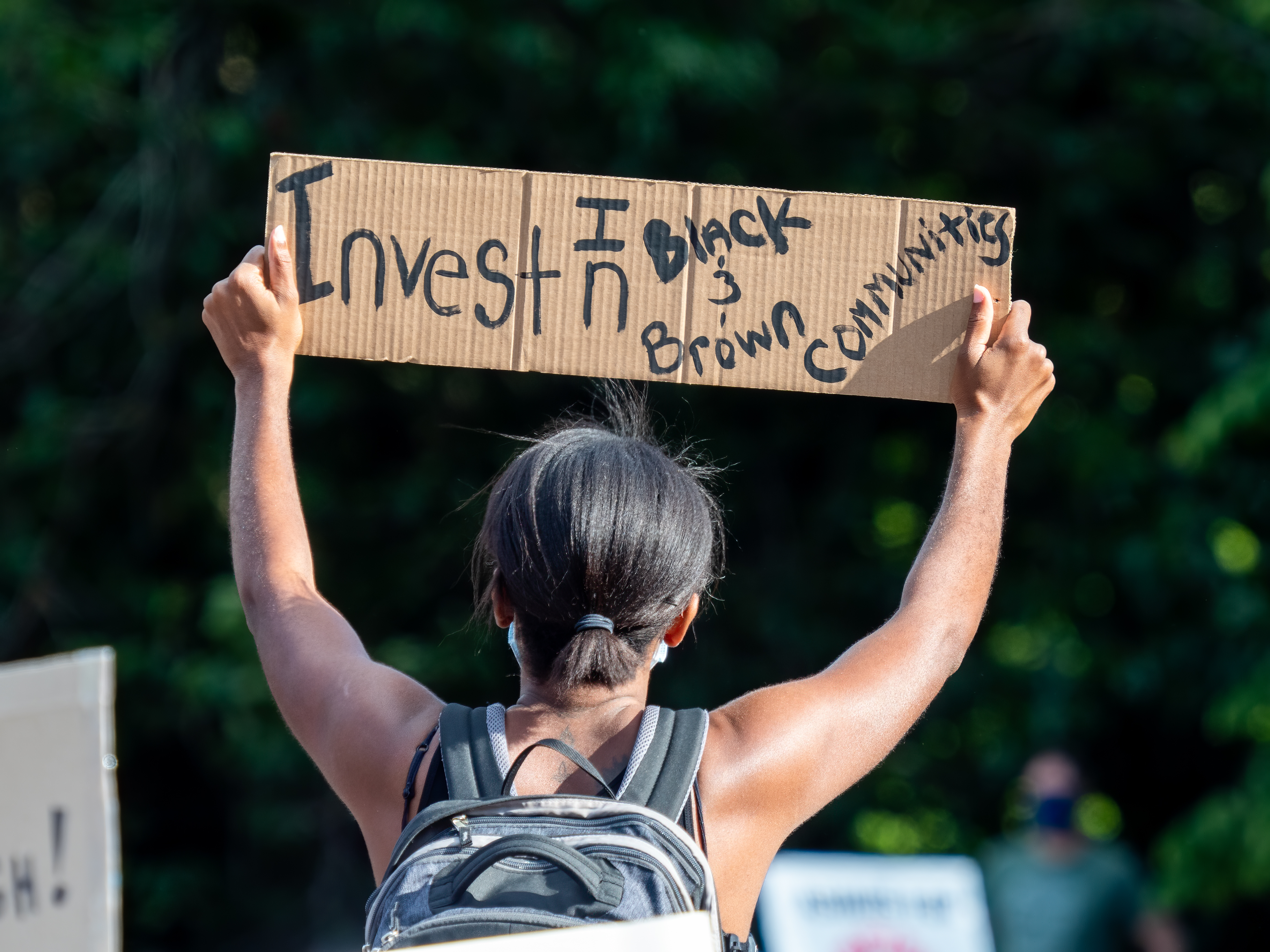 George Floyd protest in Grand Army Plaza, June 7, 2020